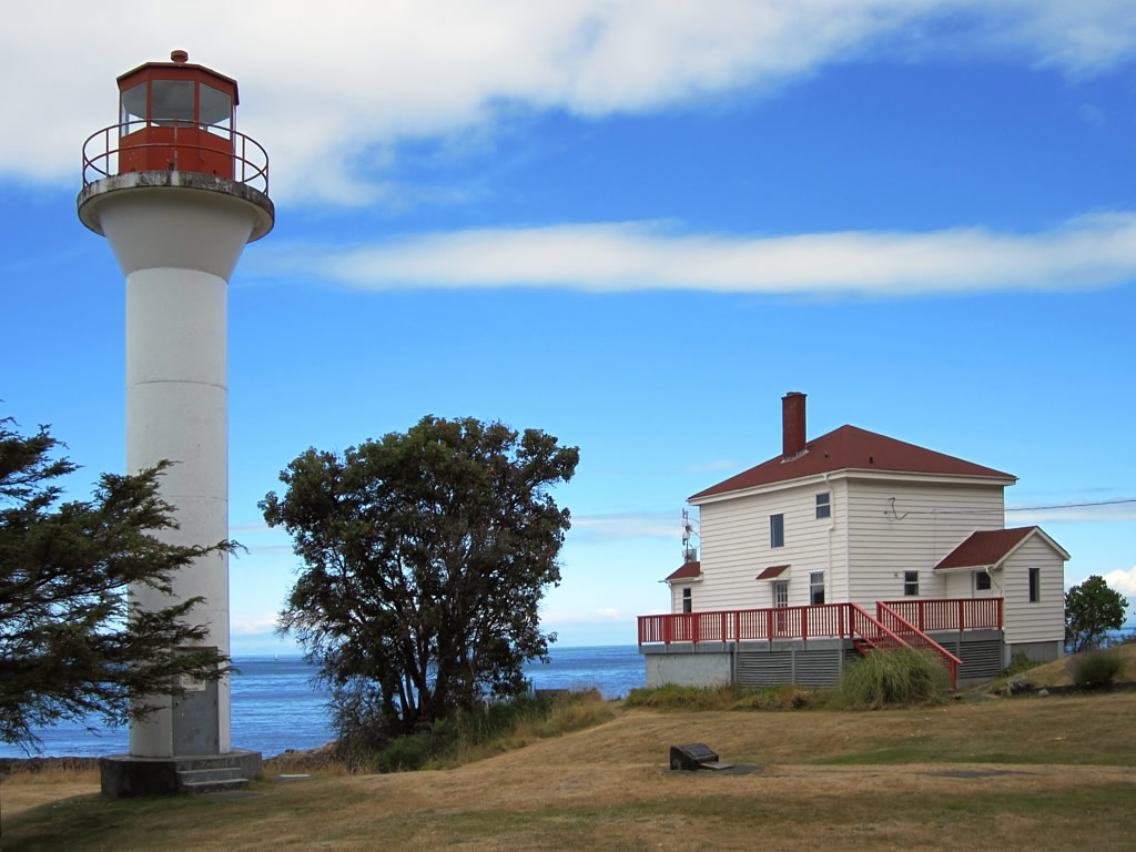 Georgina Point Lighthouse (1885), Mayne Island, Canada, faces the east entrance to Active Pass. Captain George Vancouver camped here in 1794.